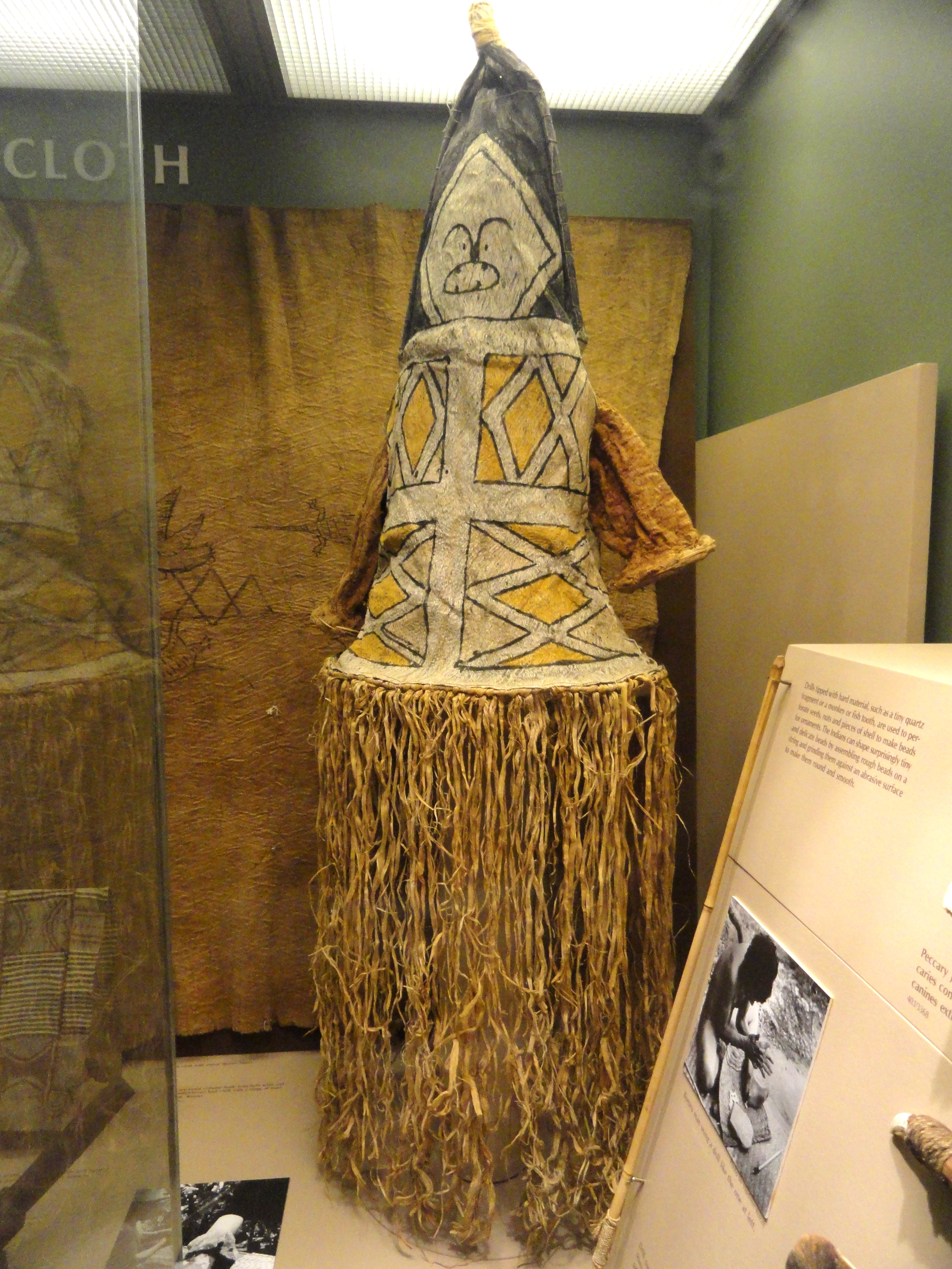 Exhibit in the South American collection of the American Museum of Natural History, Manhattan, New York City, New York, USA.